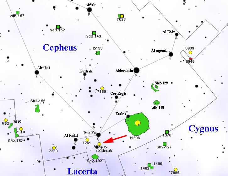 Map of NGC 7235